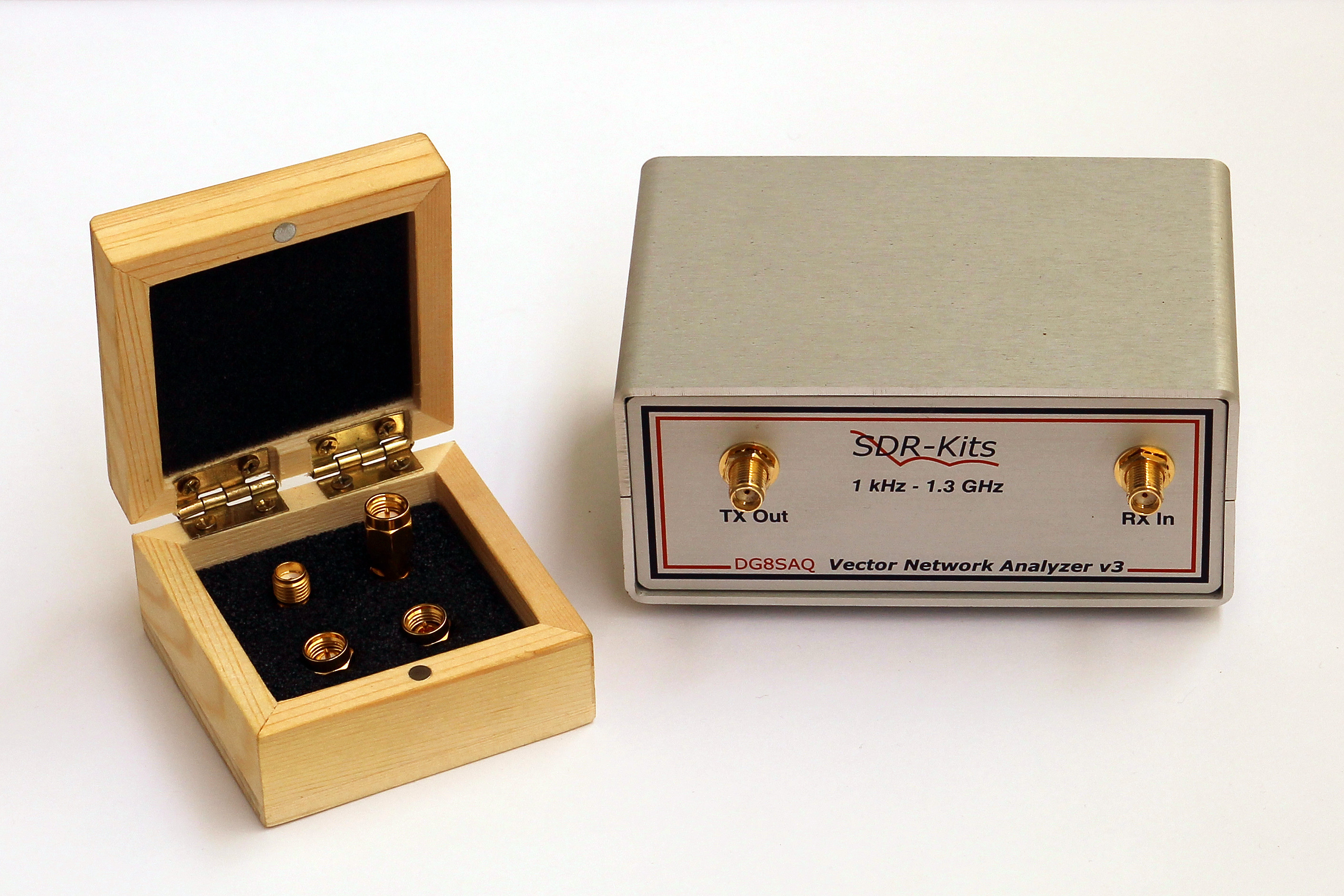 A vector network analyser by Thomas Baier (DG8SAQ).